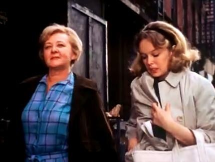 Ruth White (left) & Sandy Dennis in Up the Down Staircase - trailer (cropped screenshot)